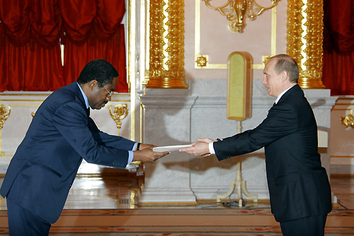 ST ALEXANDER HALL, THE GRAND KREMLIN PALACE. The letter of credential is presented by the Ambassador of the Republic of Gabon, Paul Bie-Eyene.